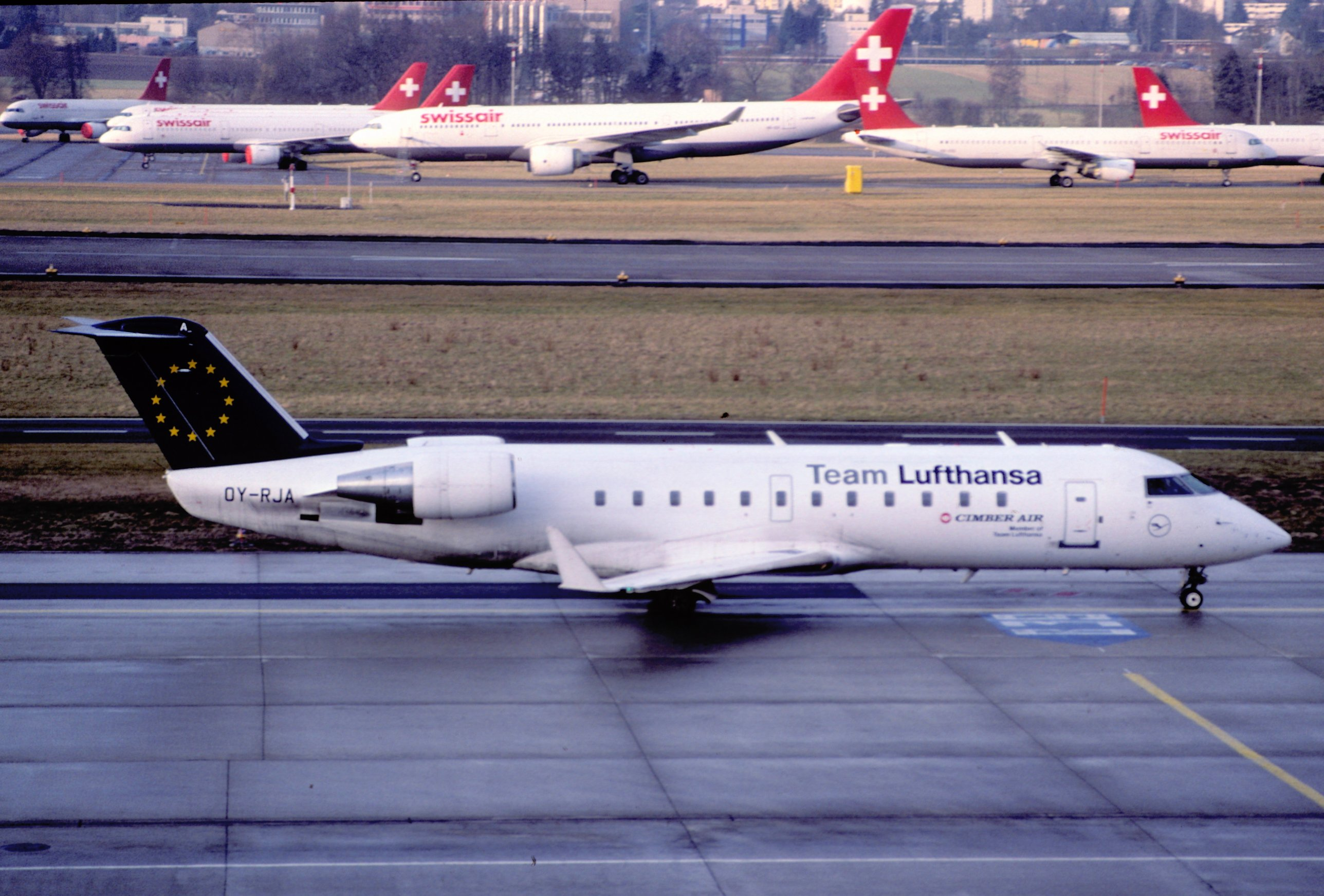 Passing stored Swissair aircraft...